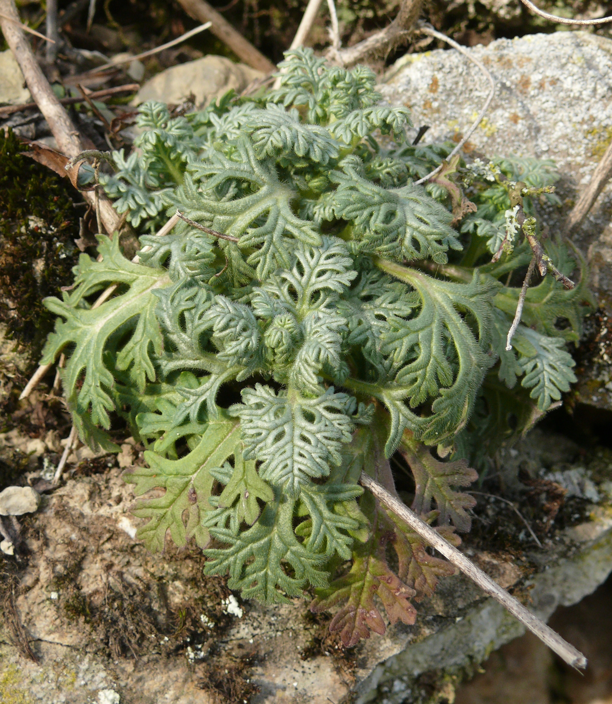 Teucrium botrys, Tauberland, Germany